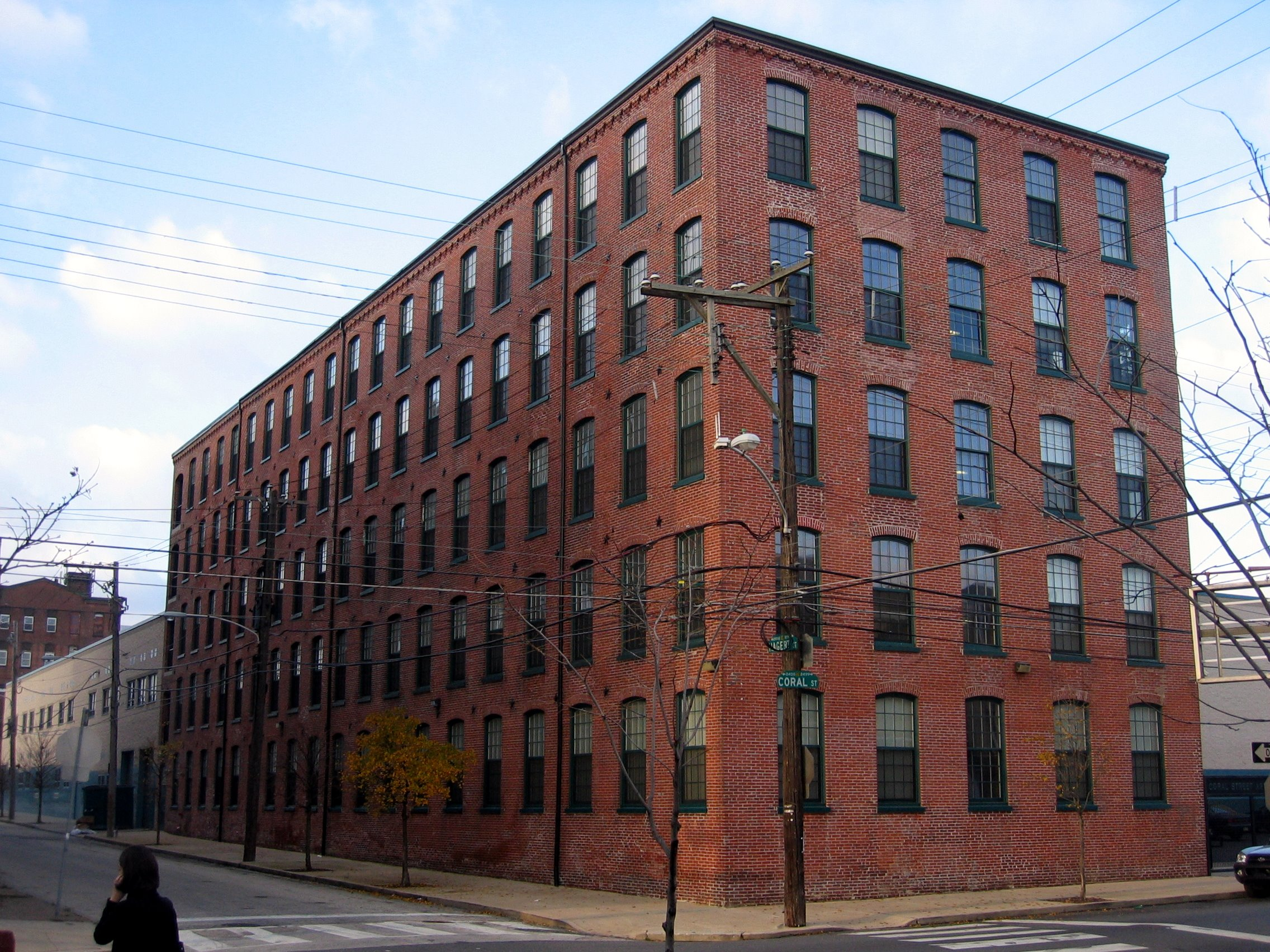 Constructed in 1886, the Beatty’s Mills Factory Building at 2446-2468 Coral Street was redeveloped by the New Kensington Community Development Corporation in 2005 as low-income housing and artist live/work spaces. More information on the William Beatty textile Mill can be found at the Workshop of the World website. For more information on the redevelopment of William Beatty's Mills as the Coral Street Arts House see the website for Powers & Company, Inc. and the NKCDC.